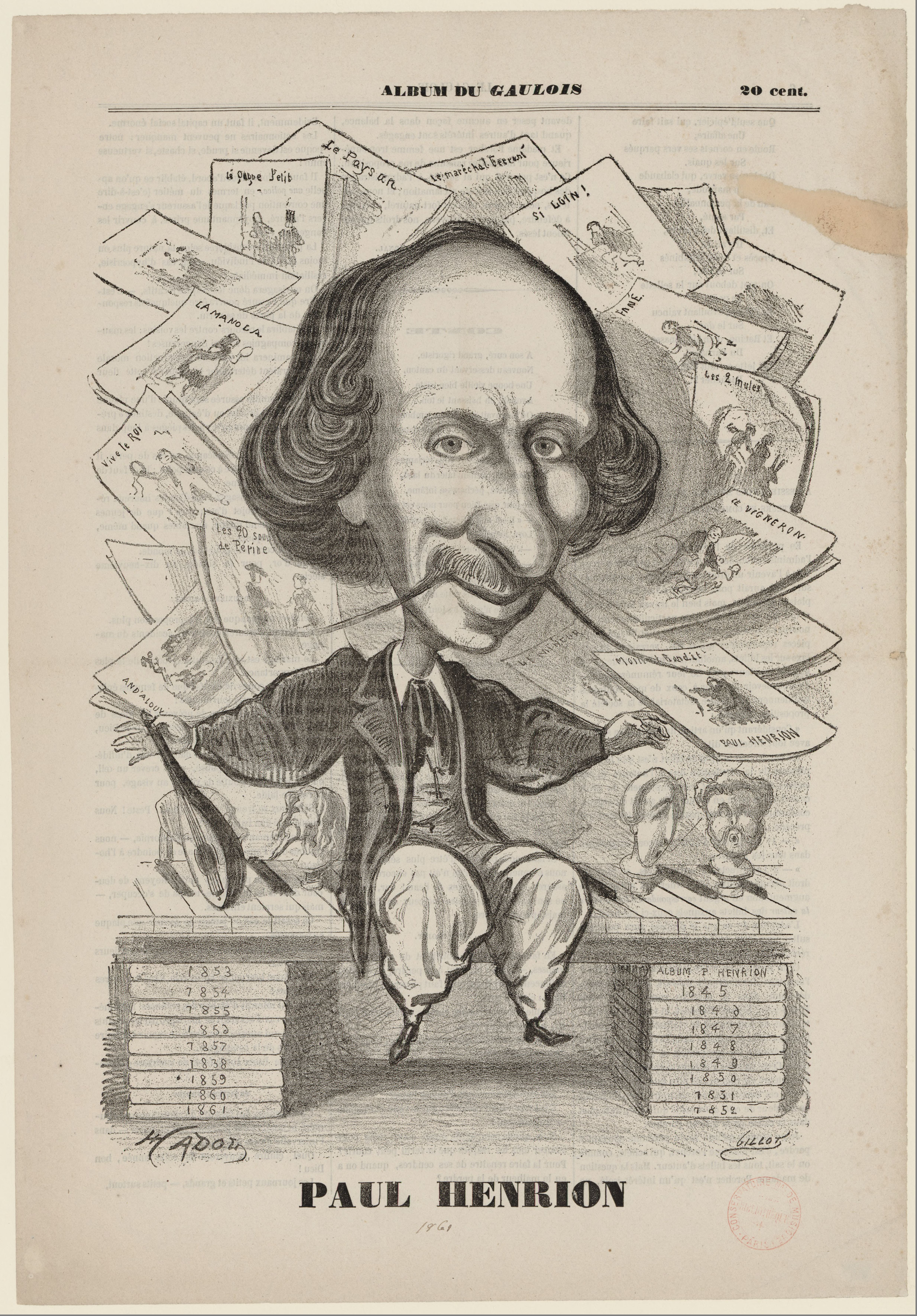 Published in Album du Gaulois, 1861. Depicted person: Paul Henrion